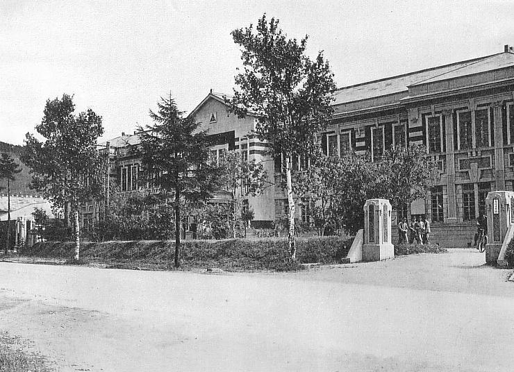 Karafuto Prefectural Toyohara Middle School